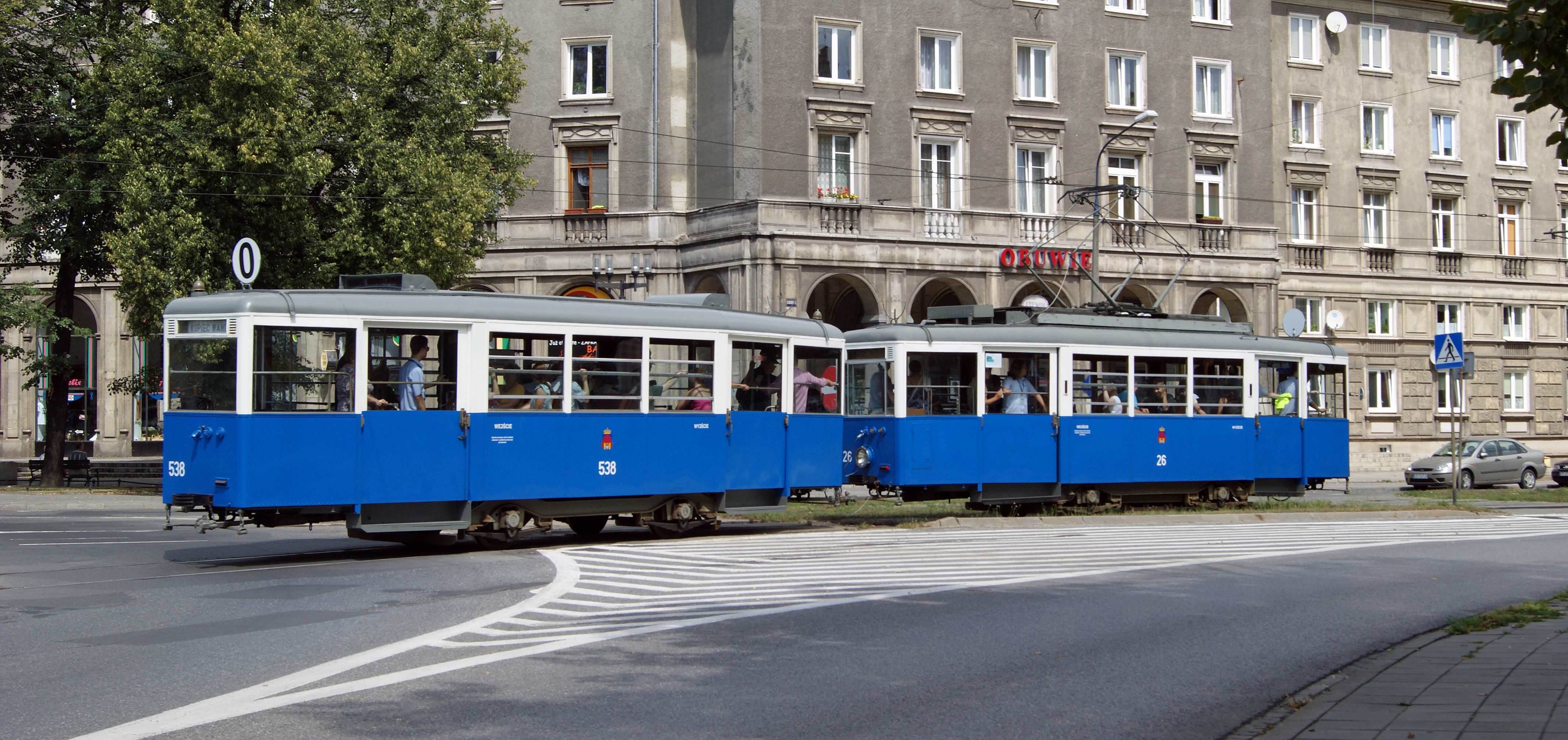 Tram Konstal N and tram trailer Konstal ND (1954), Central Square, Nowa Huta, Krakow, Poland